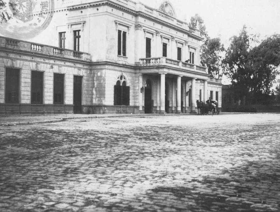 Santa Fe station built by the BA & Rosario Railway in 1891.